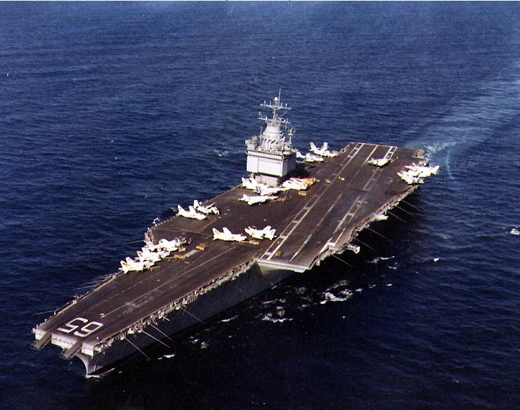 USS Enterprise (CVN-65) underway off Southern California